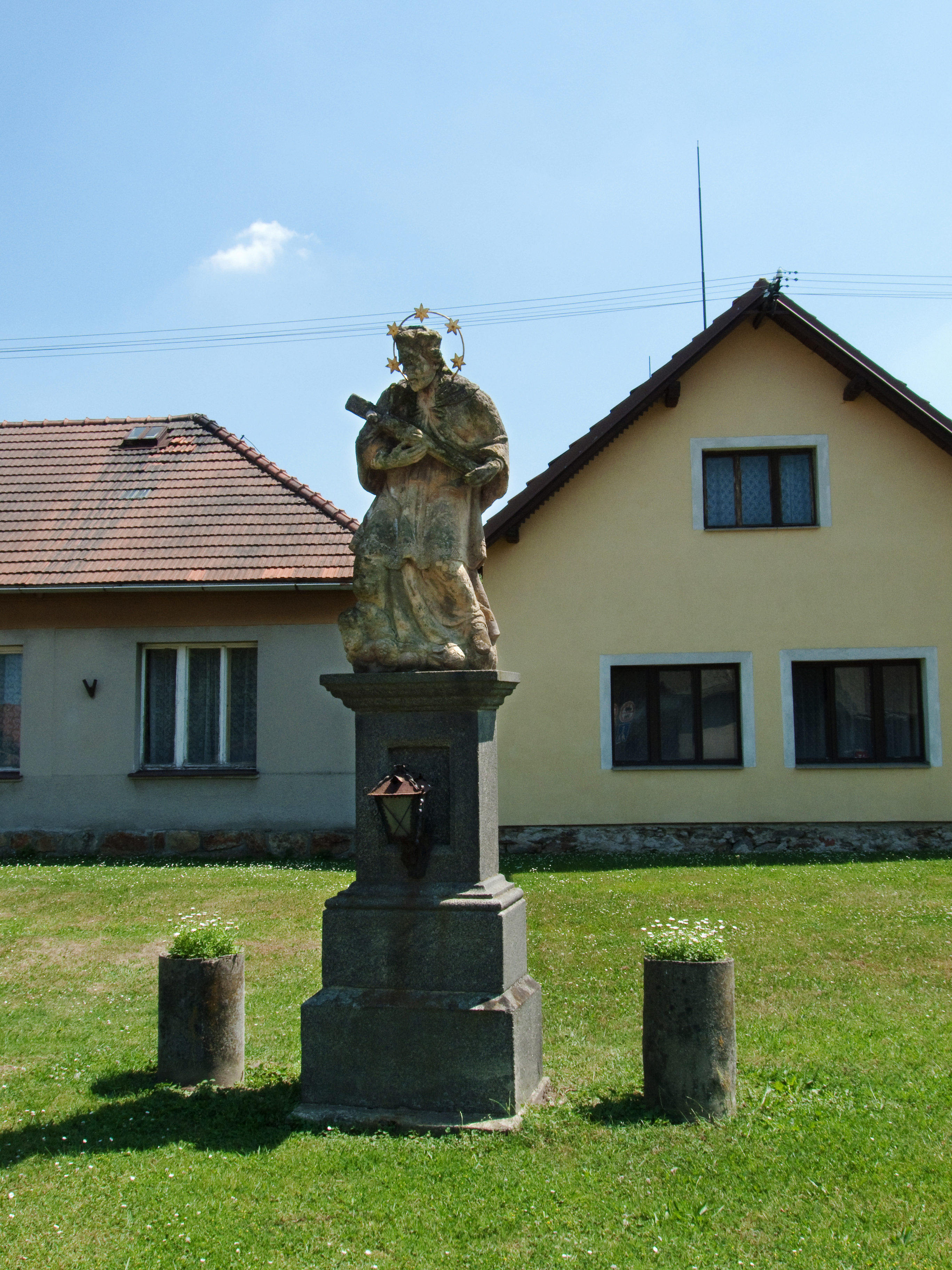 Scultpure in front of houses 34 and 35 in the village of Zdislavice, Benešov district, Czech Republic